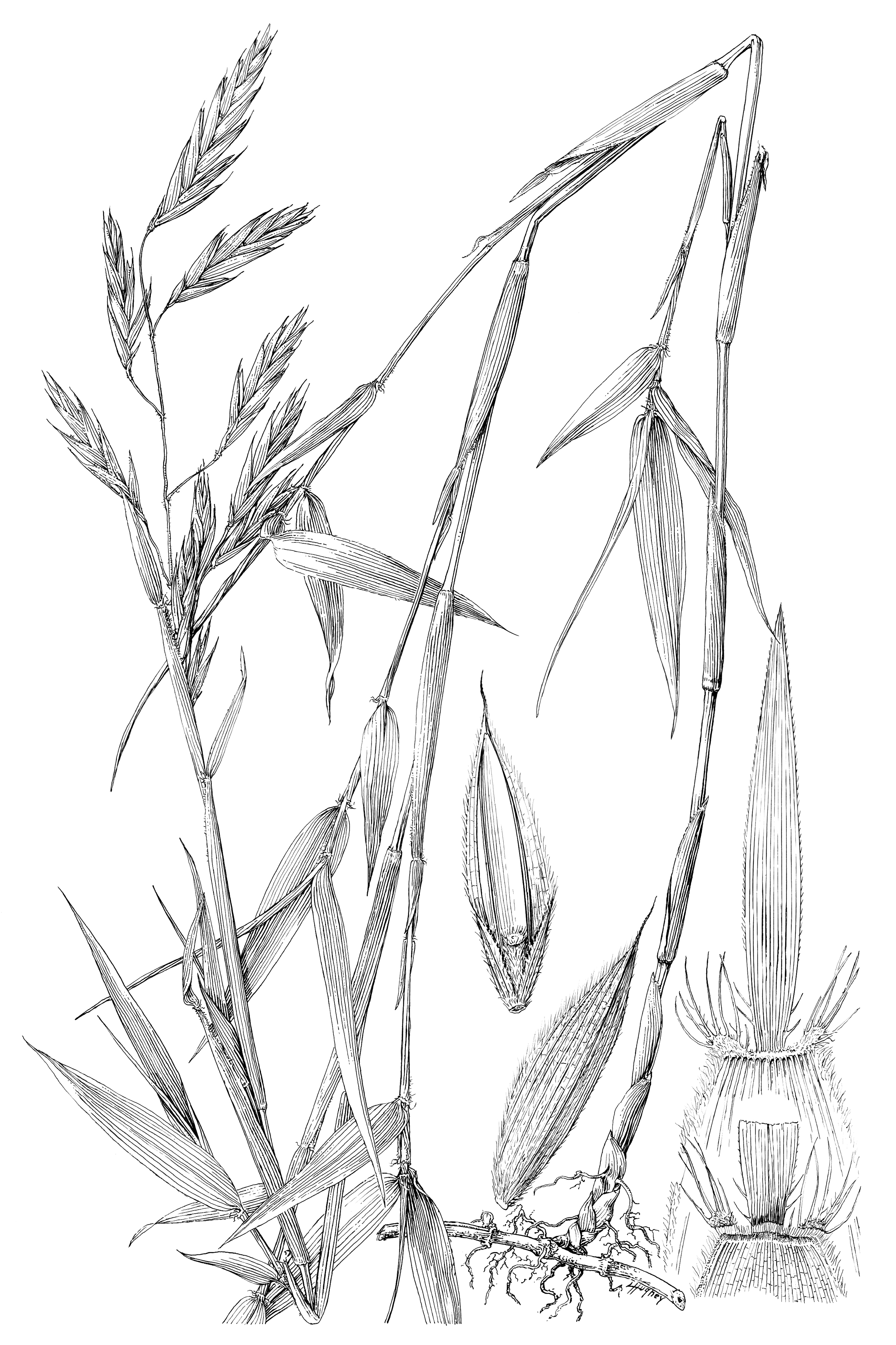 Arundinaria gigantea (Walter) Muhl. - giant cane